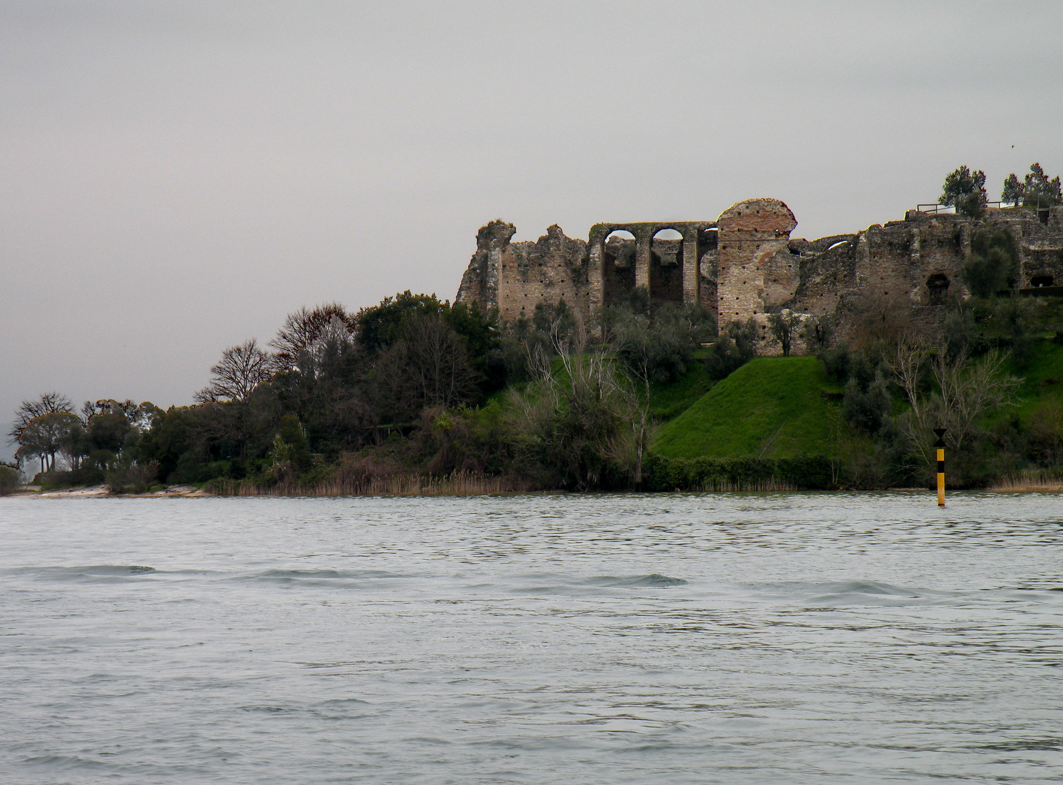 Catullus Grote